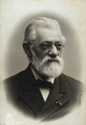 Danish professor of national economics, politician, MP, Minister of Finance Hans William Scharling (1837-1911)